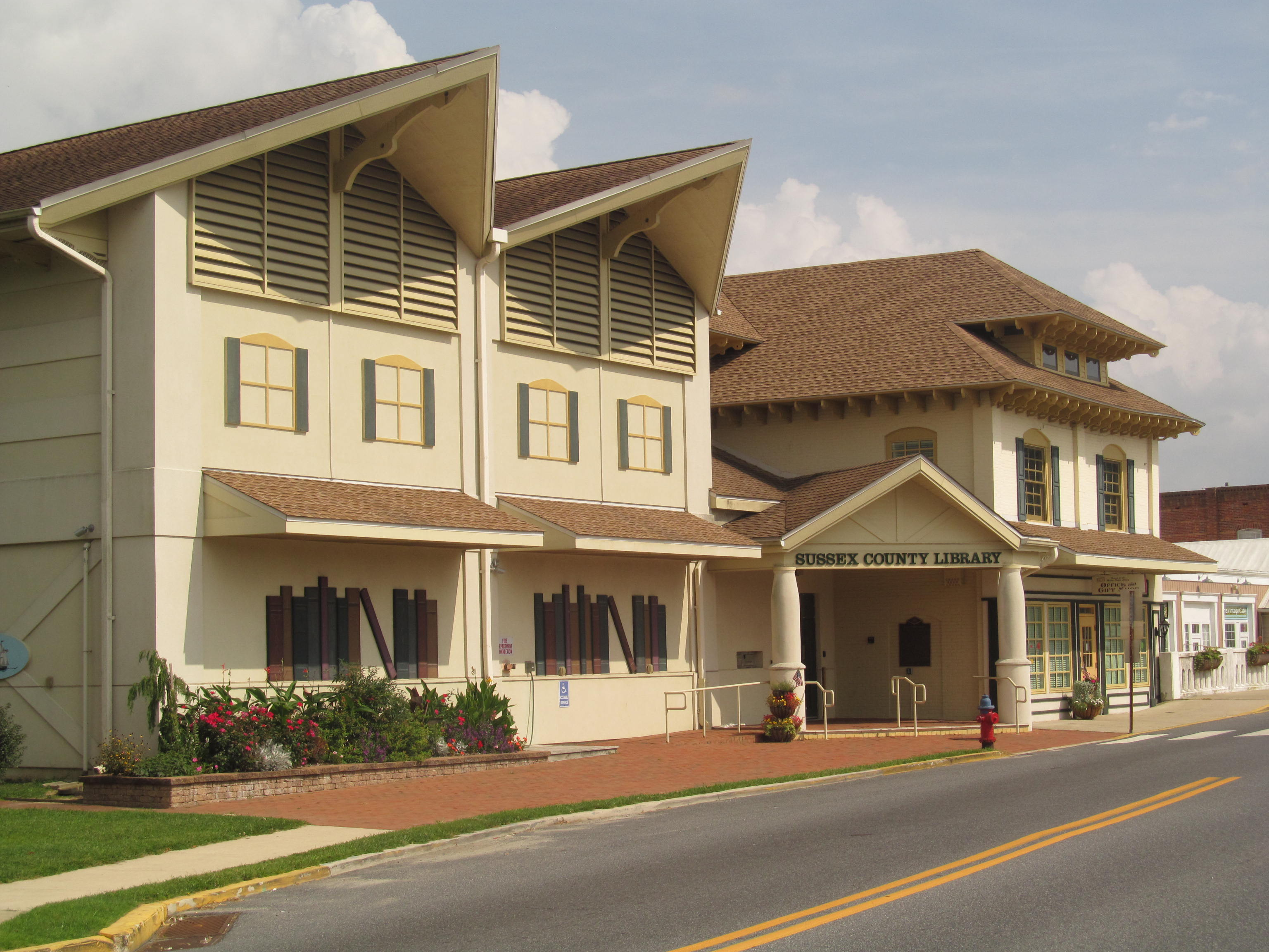 The Milton Public Library is located on Union Street.